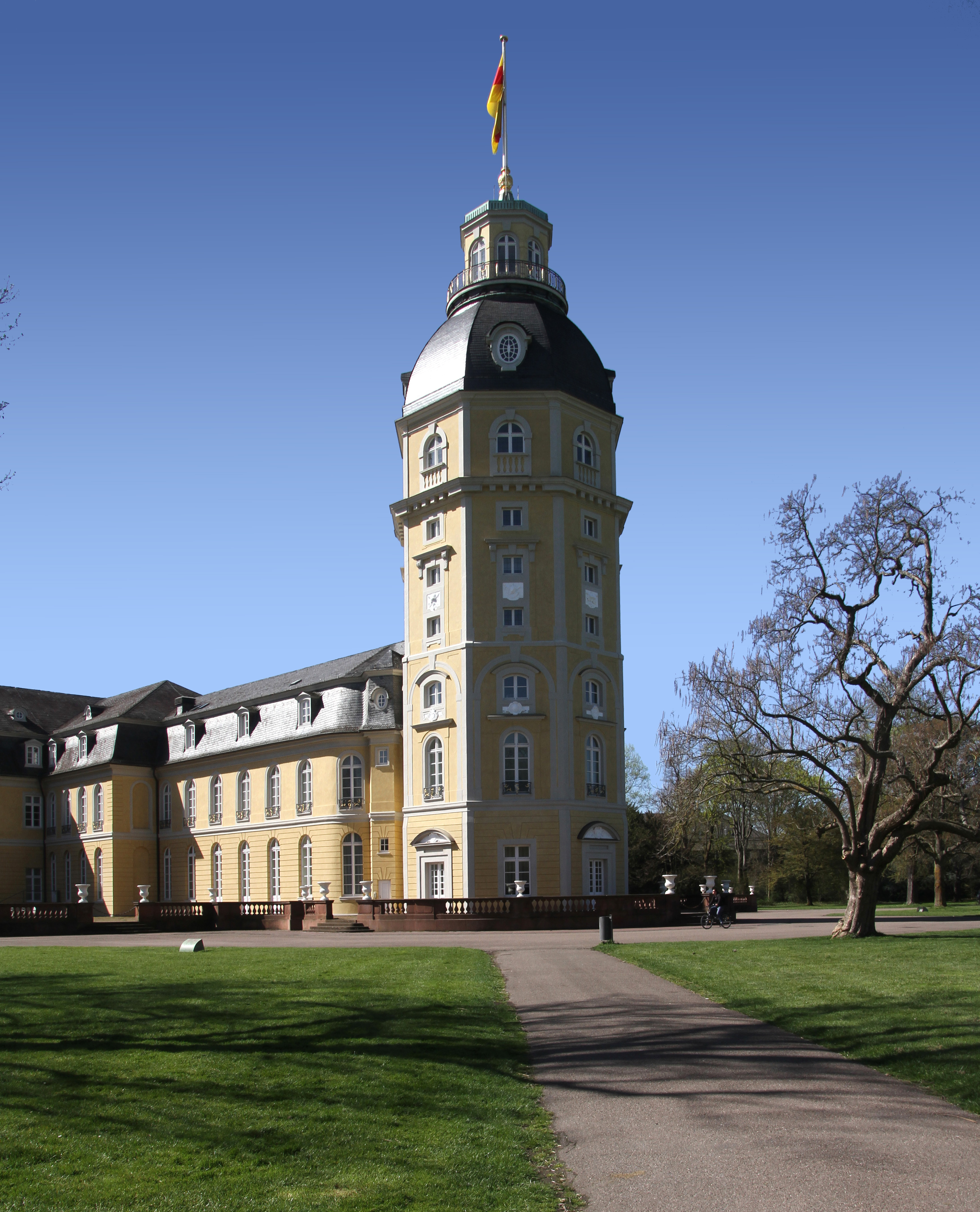 Karlsruhe Palace